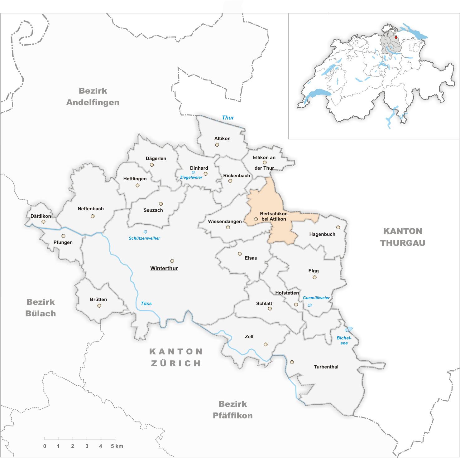 Municipality Bertschikon